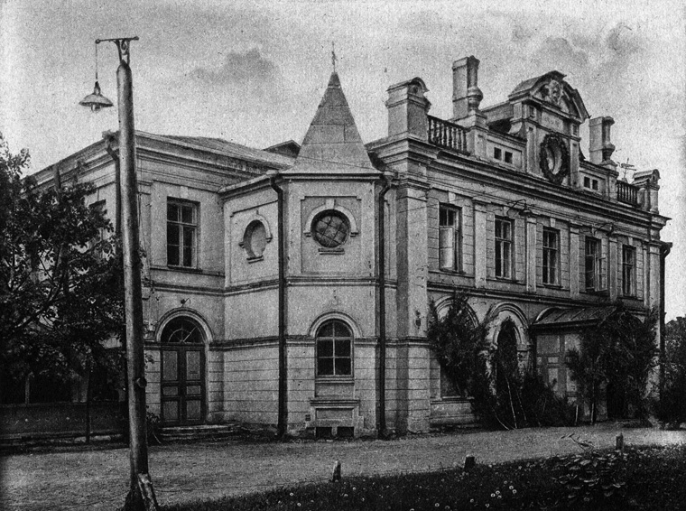 Kaunas city theatre where May 15, 1920 opened first sesion of Constituent Assembly of LithuaniaLietuvių: Kauno miesto teatras, kuriame 1920 m. gegužės 15 d. vyko pirmasis Lietuvos Steigiamojo Seimo posėdis